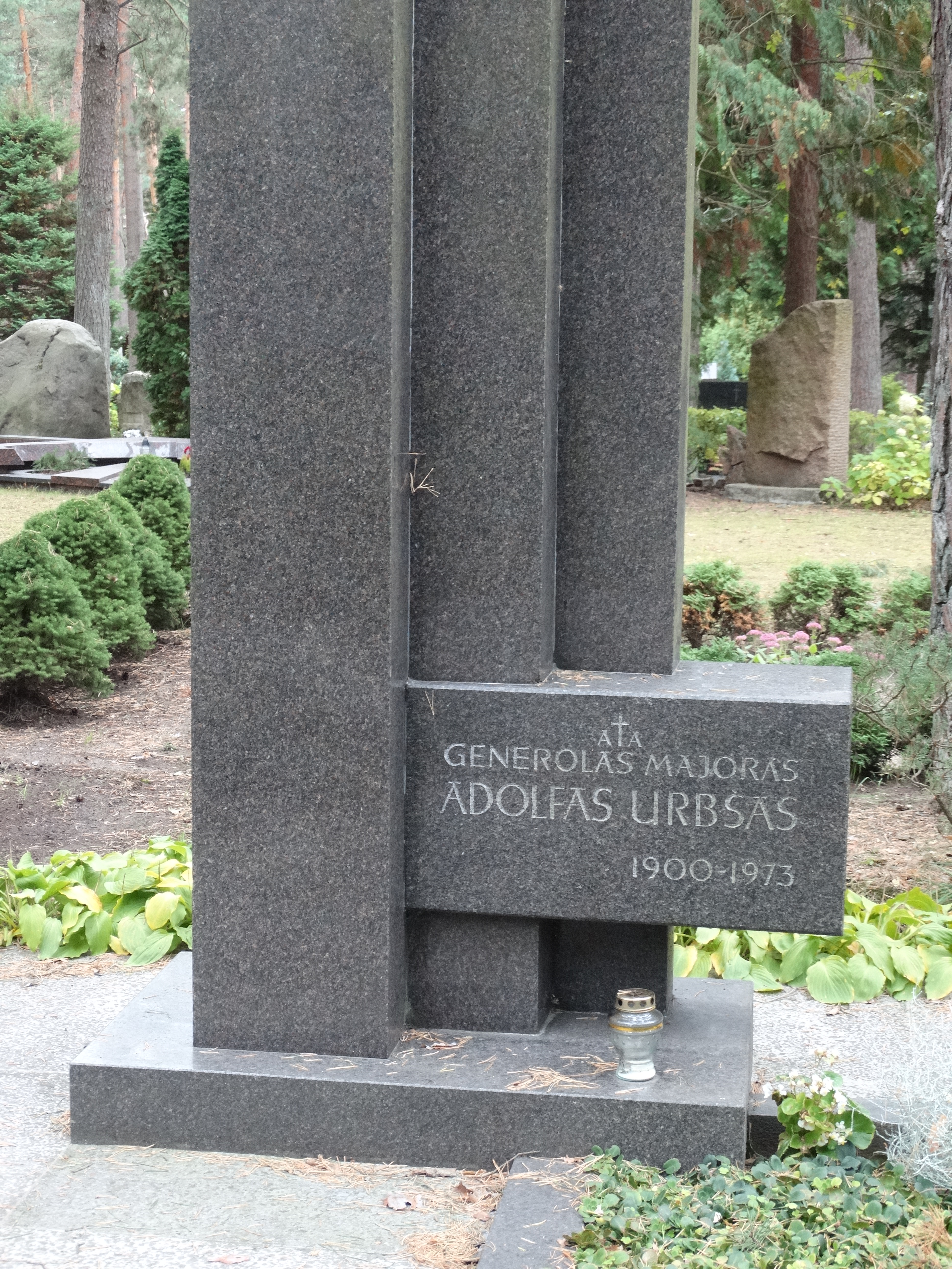 Tomb of Adolfas Urbšas, Petrašiūnai, Lithuania